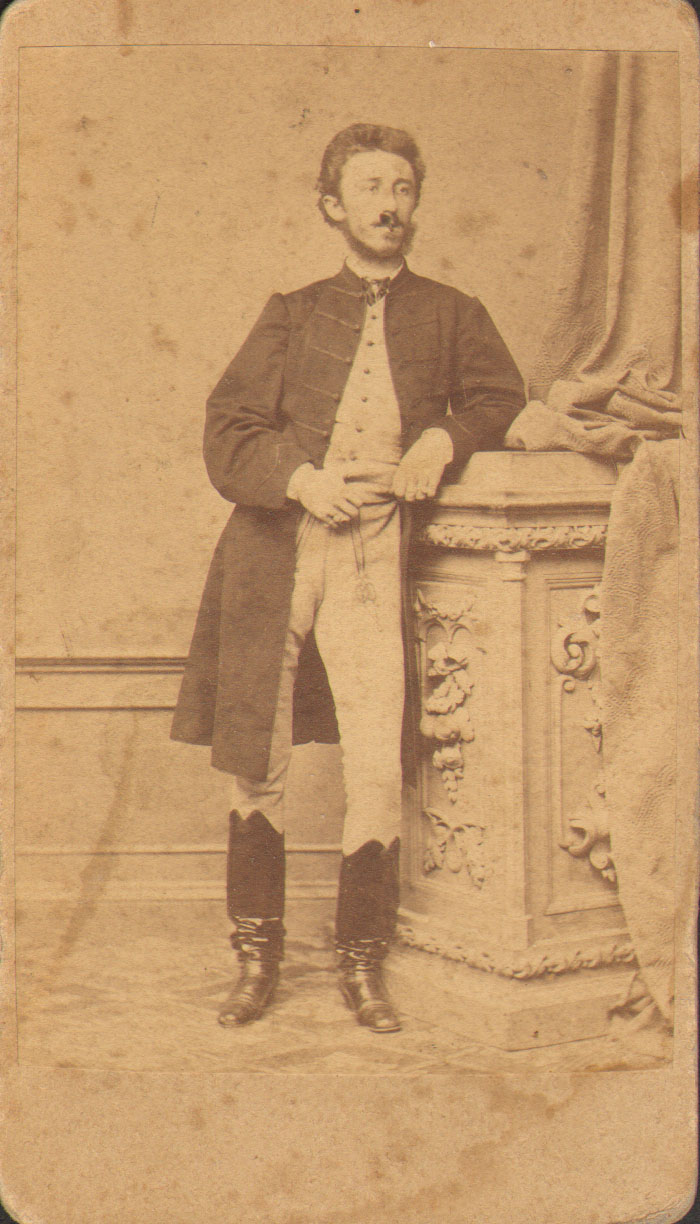 Photograph of Stevan Pecija Popović (1845-1909), Serbian lawyer and mayor of Novi Sad. Srpski (latinica): Fotografija Stevana Pecije Popovića (1845-1909), pravnika i gradonačelnika Novog Sada.